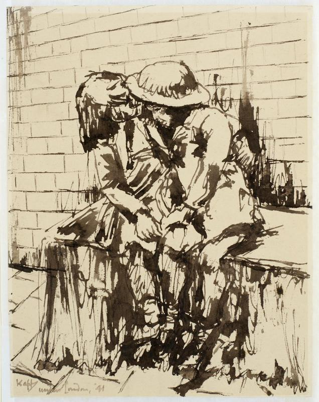 A boy and girl sitting on a bench sheltering in the London Underground during the Blitz of World War Two.